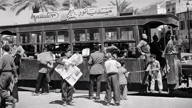 Children selling newspapers near the tramway, Beirut - February 04, 1956